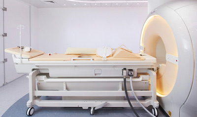 Image of Sonalleve MRI machine